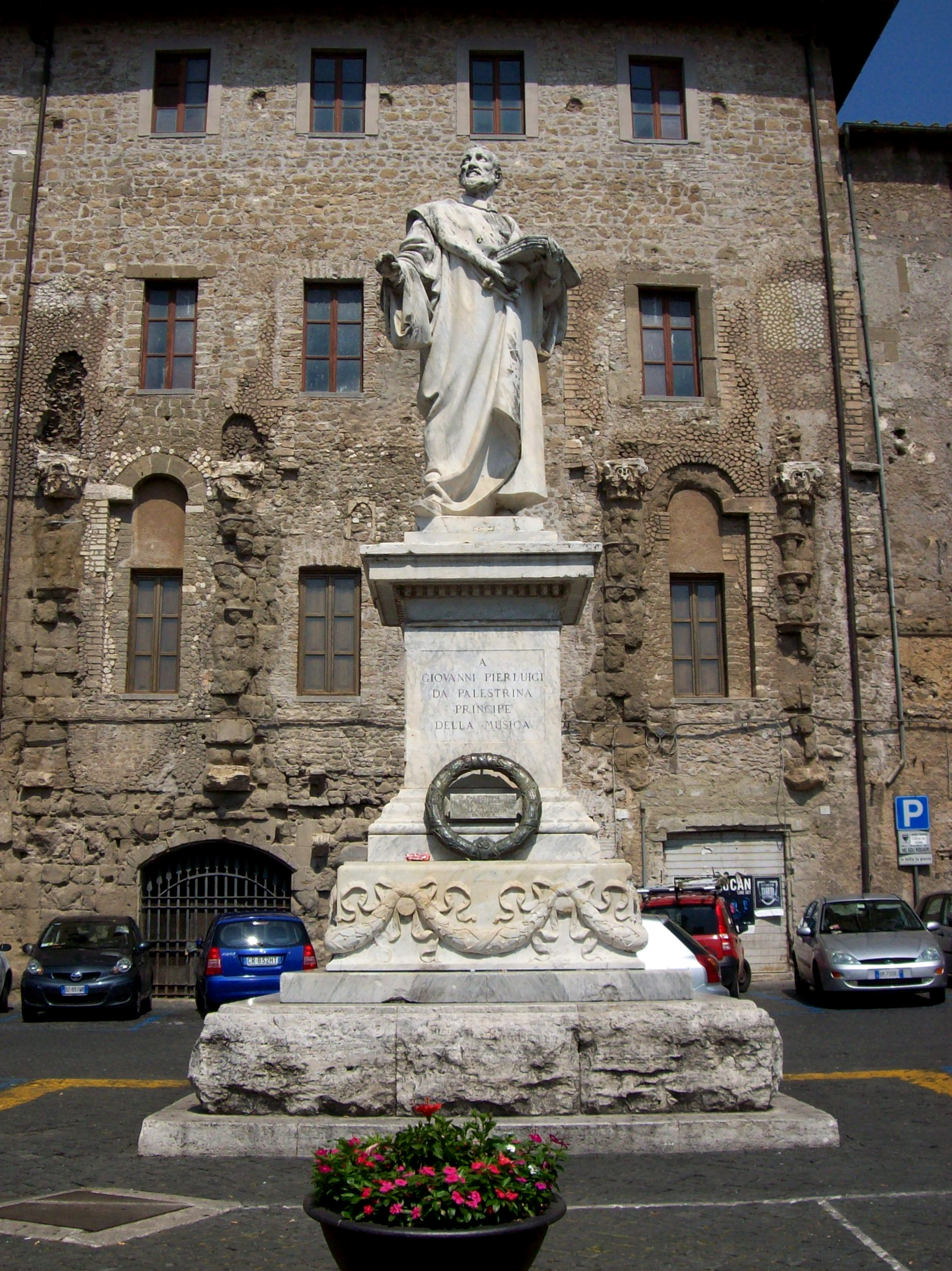 Statue of the Italian composed Giovanni Pierluigi da Palestrina